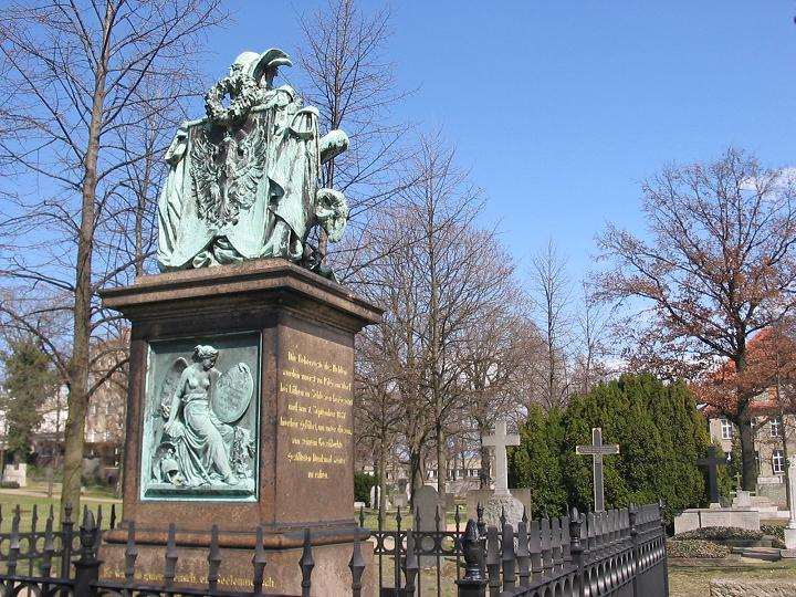 View from „Berlin-Spandauer Schifffahrtskanal“ to Invalidenfriedhof ((invalide's cemetary), grave from the Prussian general Hans Karl von Winterfeldt (back side)